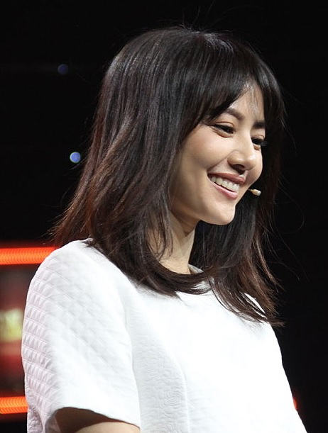 This photo was taken during the filming of Chinese talk show Art Life. In this episode, cast and director of popular TV drama We Let Married were invited.中文（中国大陆）: 这张图片于《艺术人生》的片场拍摄，这集邀请了《咱们结婚吧》的演员和导演。